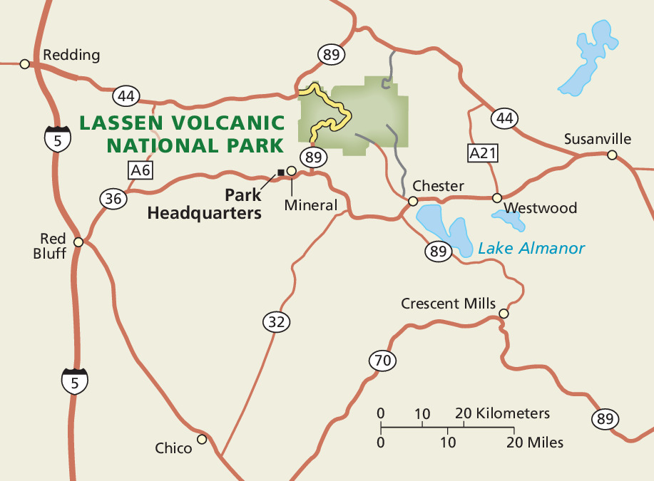 Area map Lassen Volcanic National Park